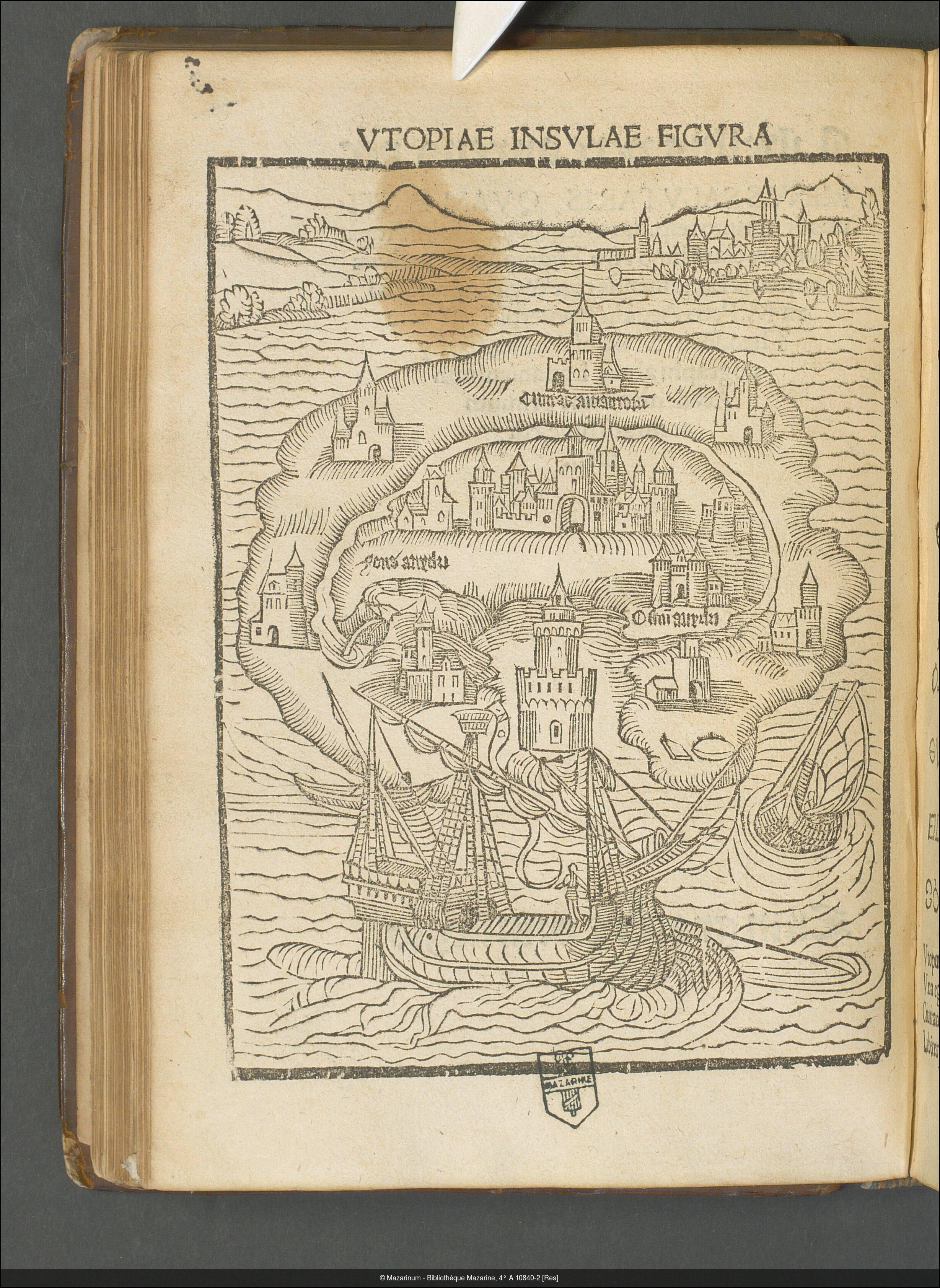 This is the map of Utopia, as it appears in the first edition of Thomas More's book in 1516